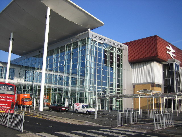 Birmingham International Railway Station. This splendid new facade leads to links to the airport and the National Exhibition Centre.